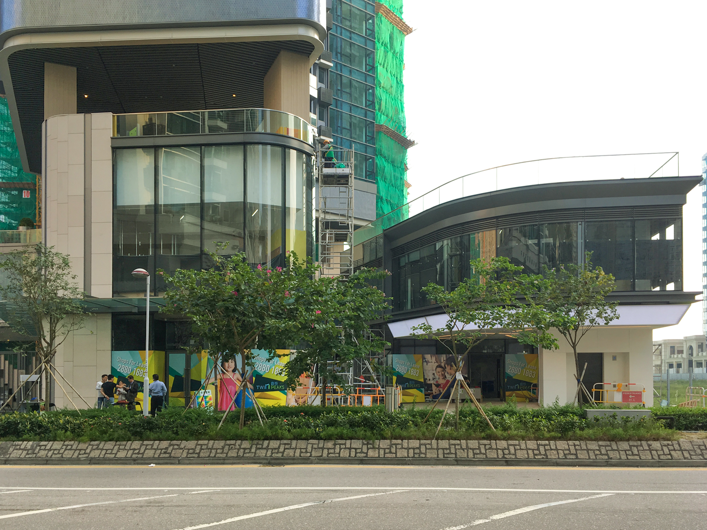 Twin Peaks Retail Shops